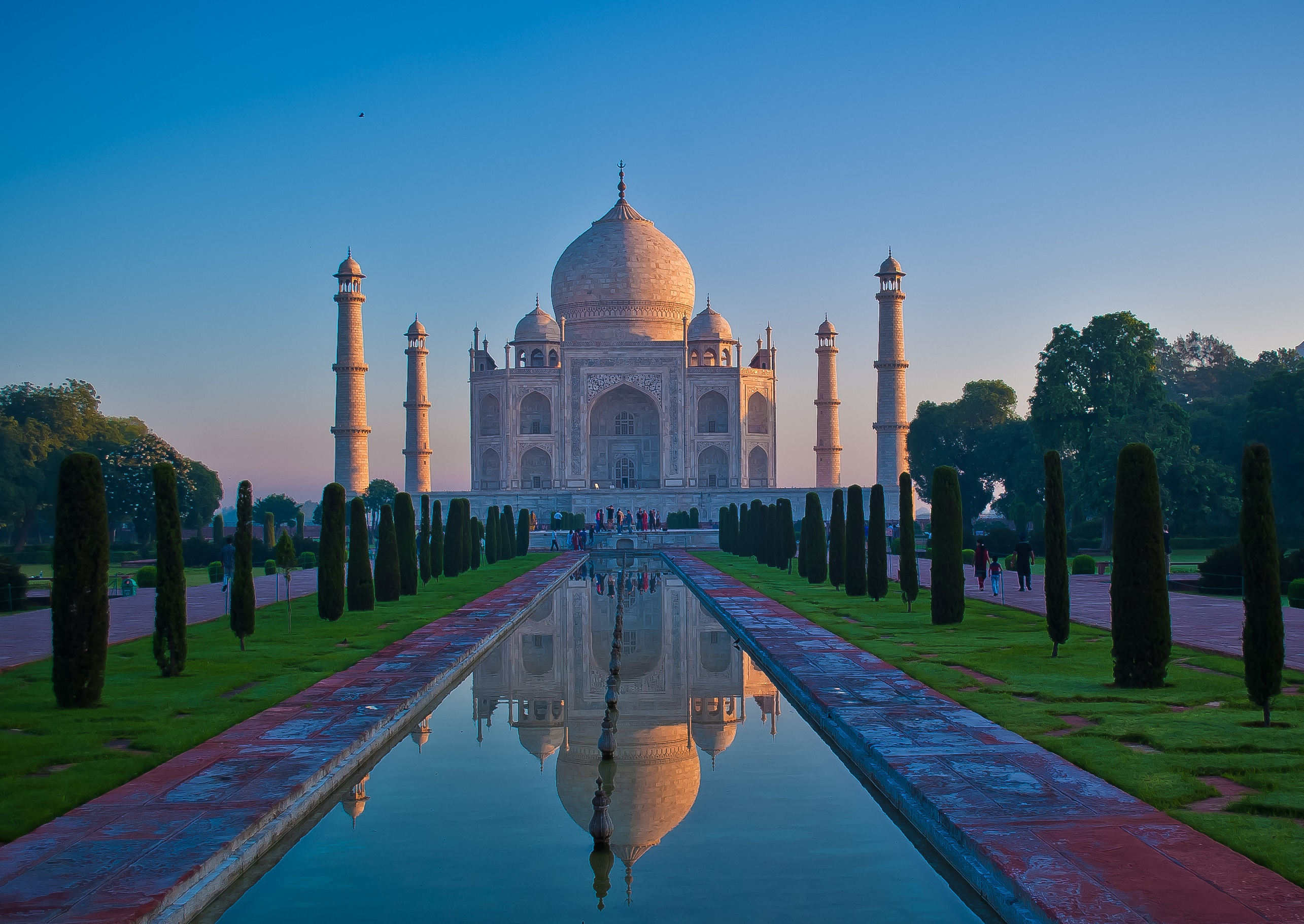 Taj Mahal and grounds including the Masjid on the west side, the pavilions on the east and west sides of the grounds; great south entrance gateway and great courtyard surrounded by cloisters.